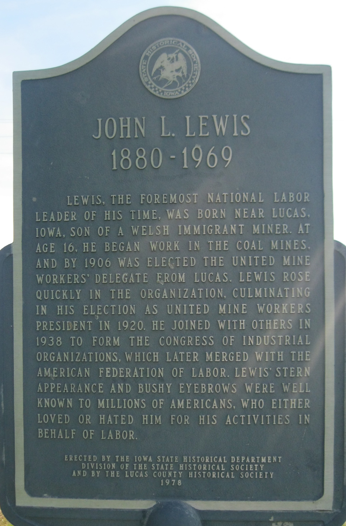 John L. Lewis, 1880-1969 Lewis, the foremost national Labor leader of his time, was born near Lucas, Iowa, son of a Welsh immigrant miner. At age 16, he began work in the coal mines. And by 1906 was elected the United Mine Workers' delegate from Lucas. Lewis rose quickly in the organization culminating in his election as United Mine Workers President in 1920. He jointed with others in 1938 to form the Congress of Industrial Organizations, which later merged with the American Federation of Labor. Lewis' stern appearance and bushy eyebrows were well known to millions of Americans who either loved or hated him for his activities in behalf of labor. Erected by the Iowa State Historical Department Division of the State Historical Society and by the Lucas County Historical Society 1978